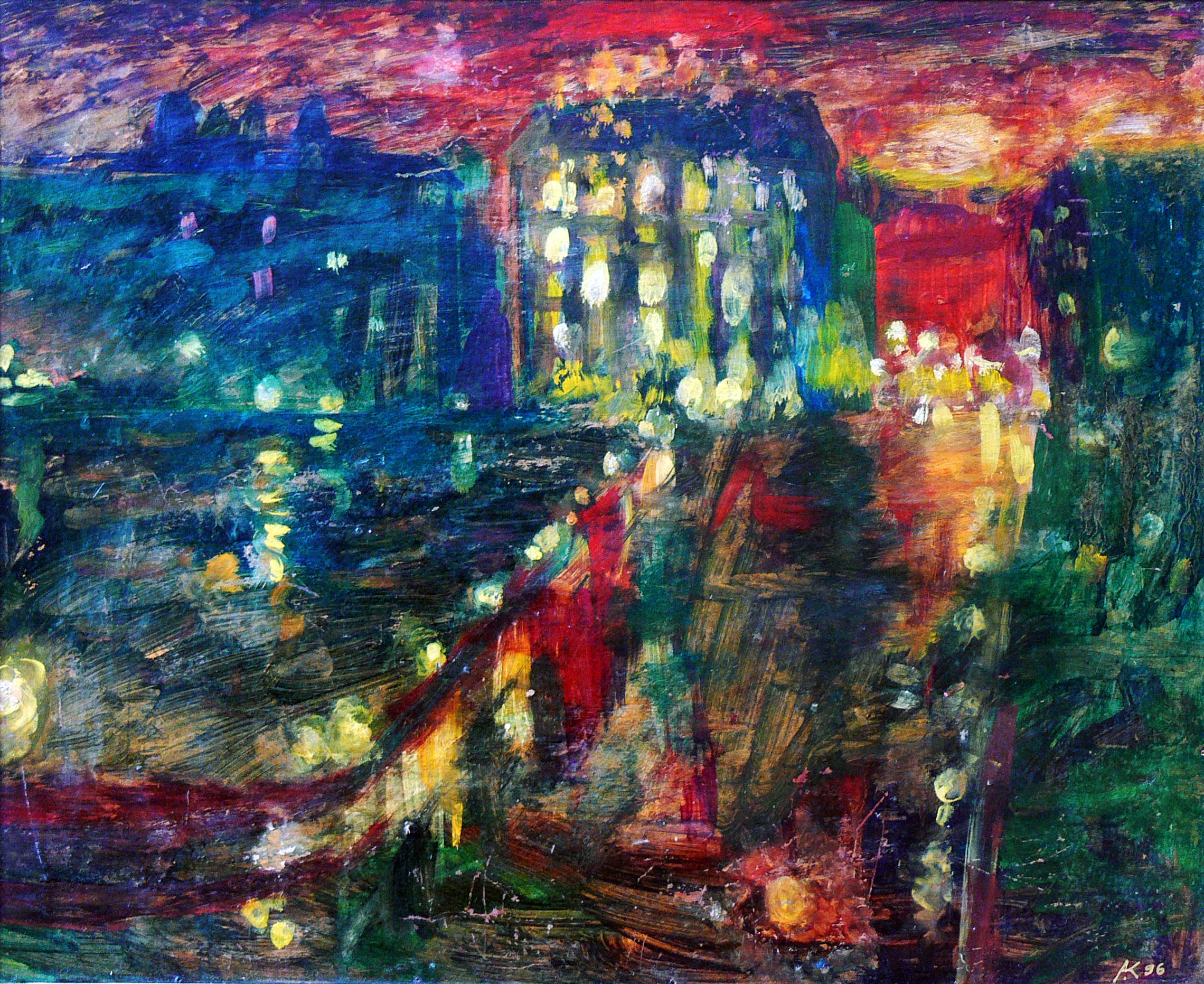 "City", 1989, watercolor, lacquer (46,5 х 56,5)